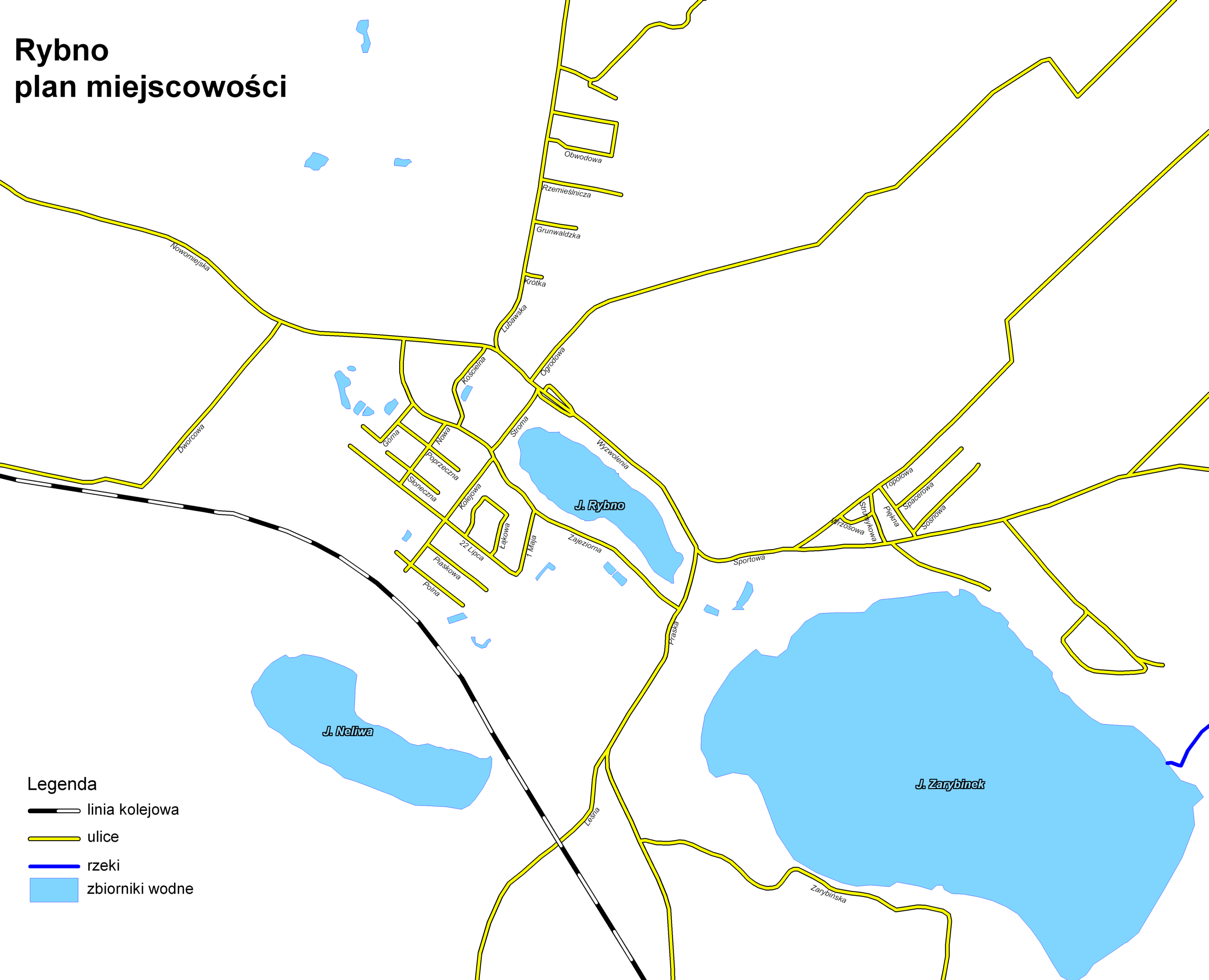 Rybno - city map